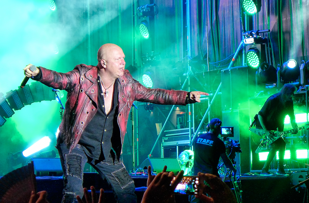 Michael Kiske live with Helloween at RockFest Barcelona in 2018